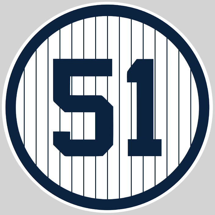 Bernie Williams retired number